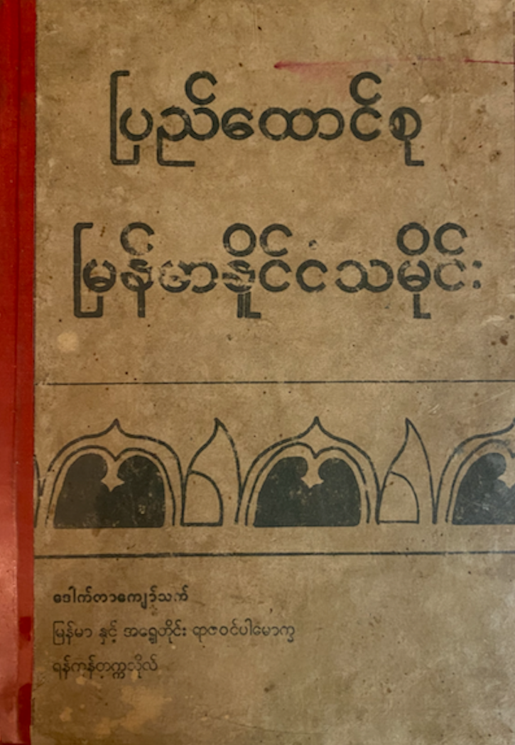 1962 edition of Burmese language "History of Union of Burma" textbook by Dr. Kyaw Thet, Professor of Burmese and Eastern History, the University of Rangoon